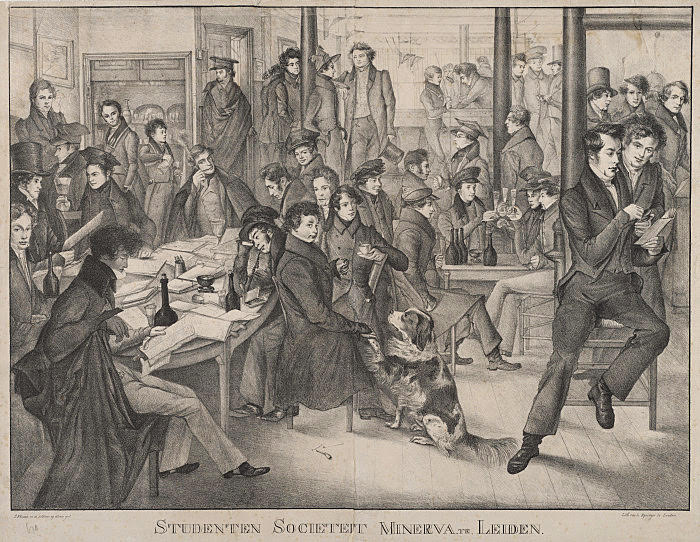 Onderschrift: Studenten Societeit Minerva te Leiden. Op de afbeelding te zien: P.J. van Nievervaart, Toon Muller, A. vd Goes, Aart Veder, T. de Klerk, H.F. Lantsheer, W. Prins, W.A.A.L. van Geusau, P.G.C. van Geusau, G.A. Ramaer, P.F. Filtz, B.J. IJssel de Schepper, J.W. Sluyter, Johannes Servaas Lotsy, Van Hogendorp, vd Duyn, C. vd Vlies, H.M. Willer, E. van Olden, Rudolph Willem graaf van Lynden, C.A. Vriesendorp, C. Fleck, J. Smits, S.P. Heyns, B. Jas, C.J. Soek, J.H. vd Sande, Willem R. Veder, L.H. Schumer, Gerrit van de Linde. (Rapenburg Leiden, 1830)